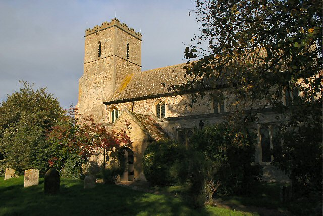 Nave and west tower of All Saints' parish church, Worlington, Suffolk, seen from the southeast